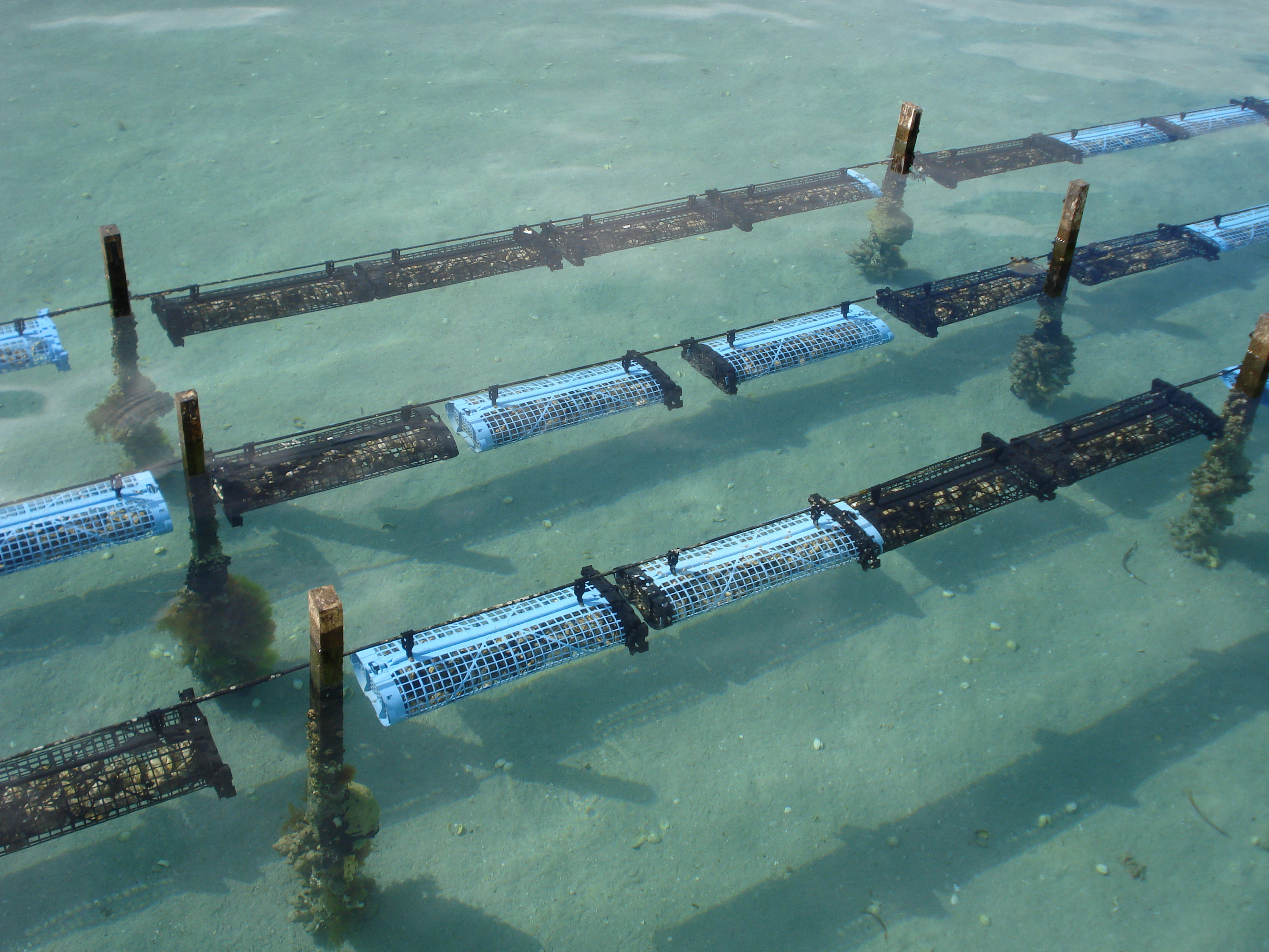 Purpose moulded Plastic oyster baskets manufactured by SEAPA